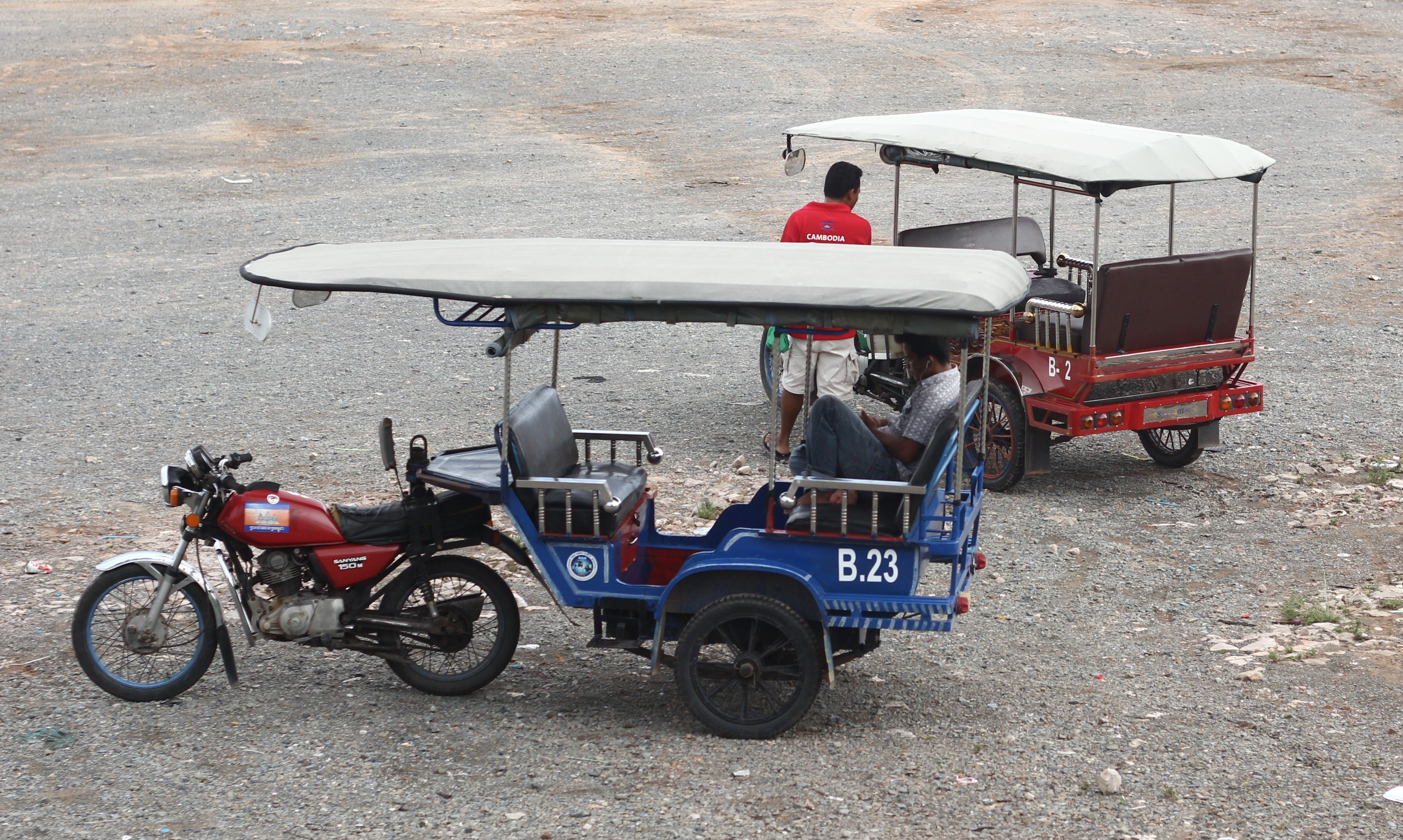 Cambodian tuk-tuk. ភាសាខ្មែរ: ខេត្តព្រះសីហនុ